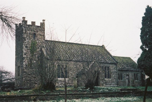 Holy Trinity parish church Turners Puddle, Dorset, seen from the southwest. The church lost its roof in a storm in 1758. It is now redundant.